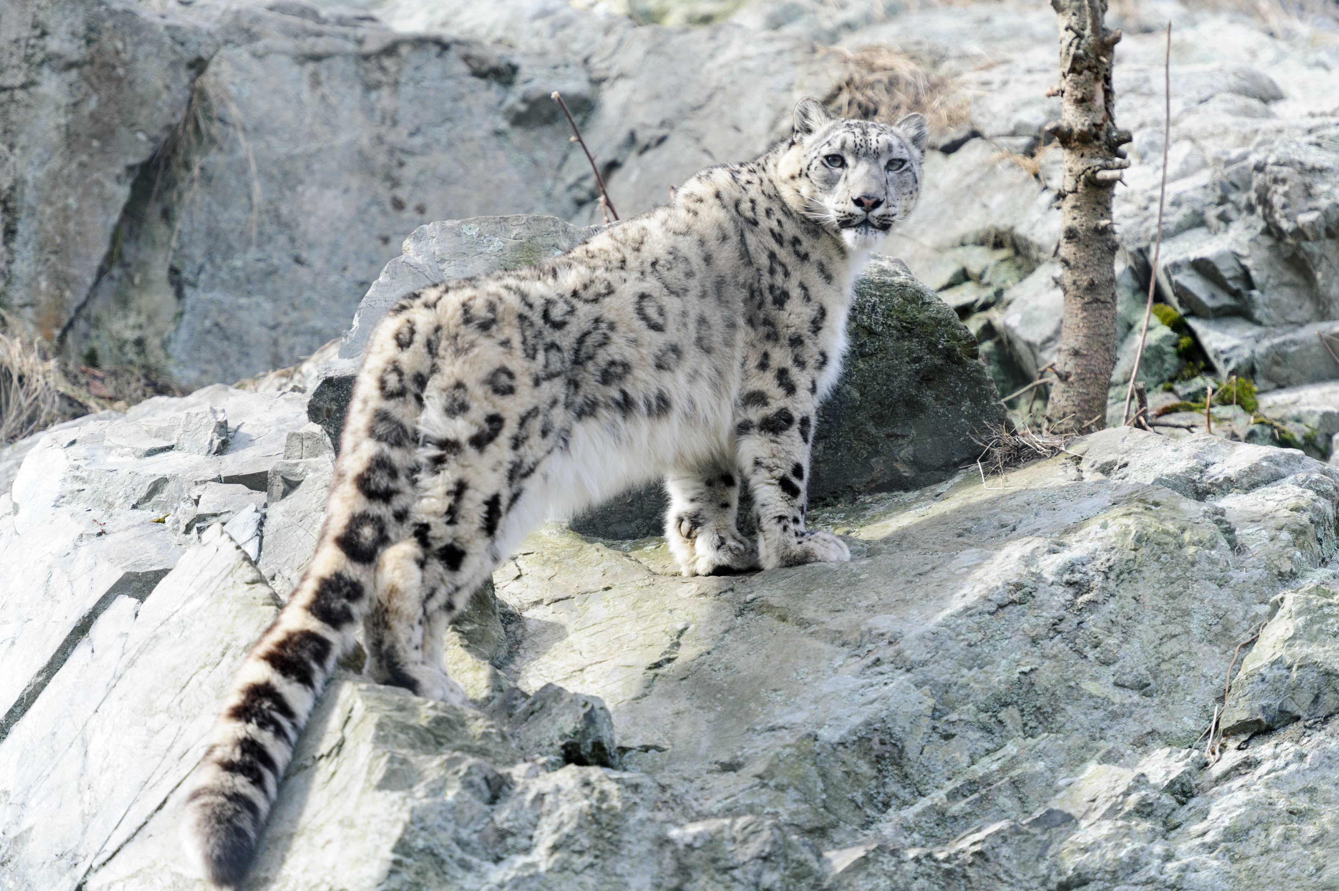 Snow Leopard Climbing Rocks